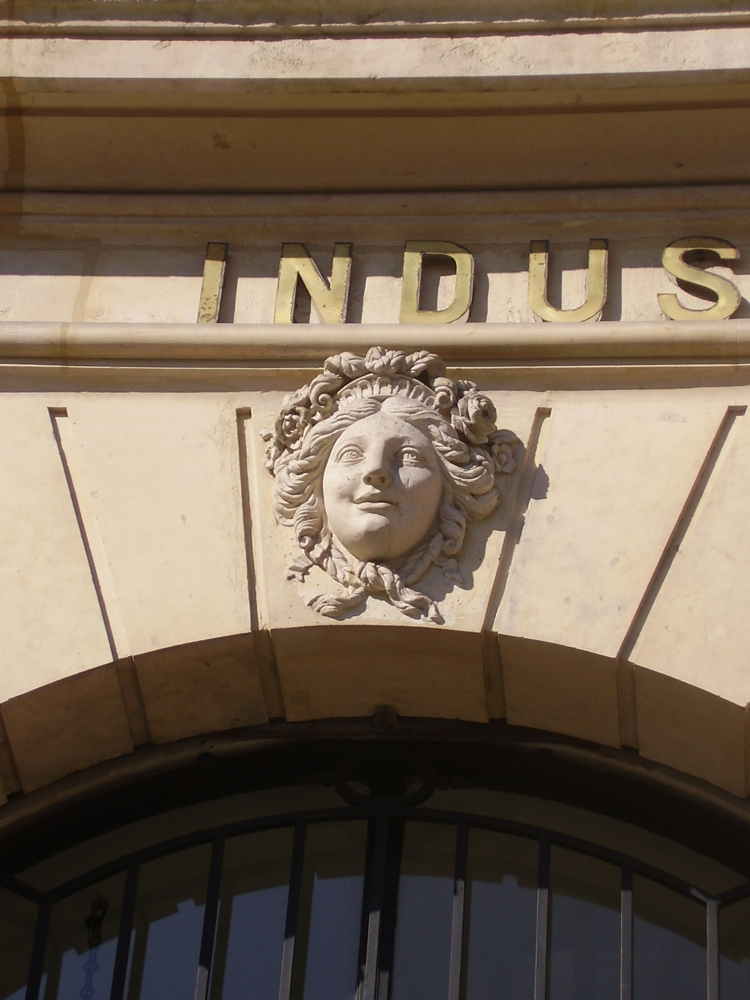 Mascaron of the hôtel de Metz de Rosnay (Paris, place des Victoires)